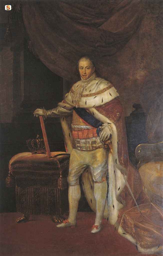 Portrait of Charles Felix of Sardinia (1765-1831)